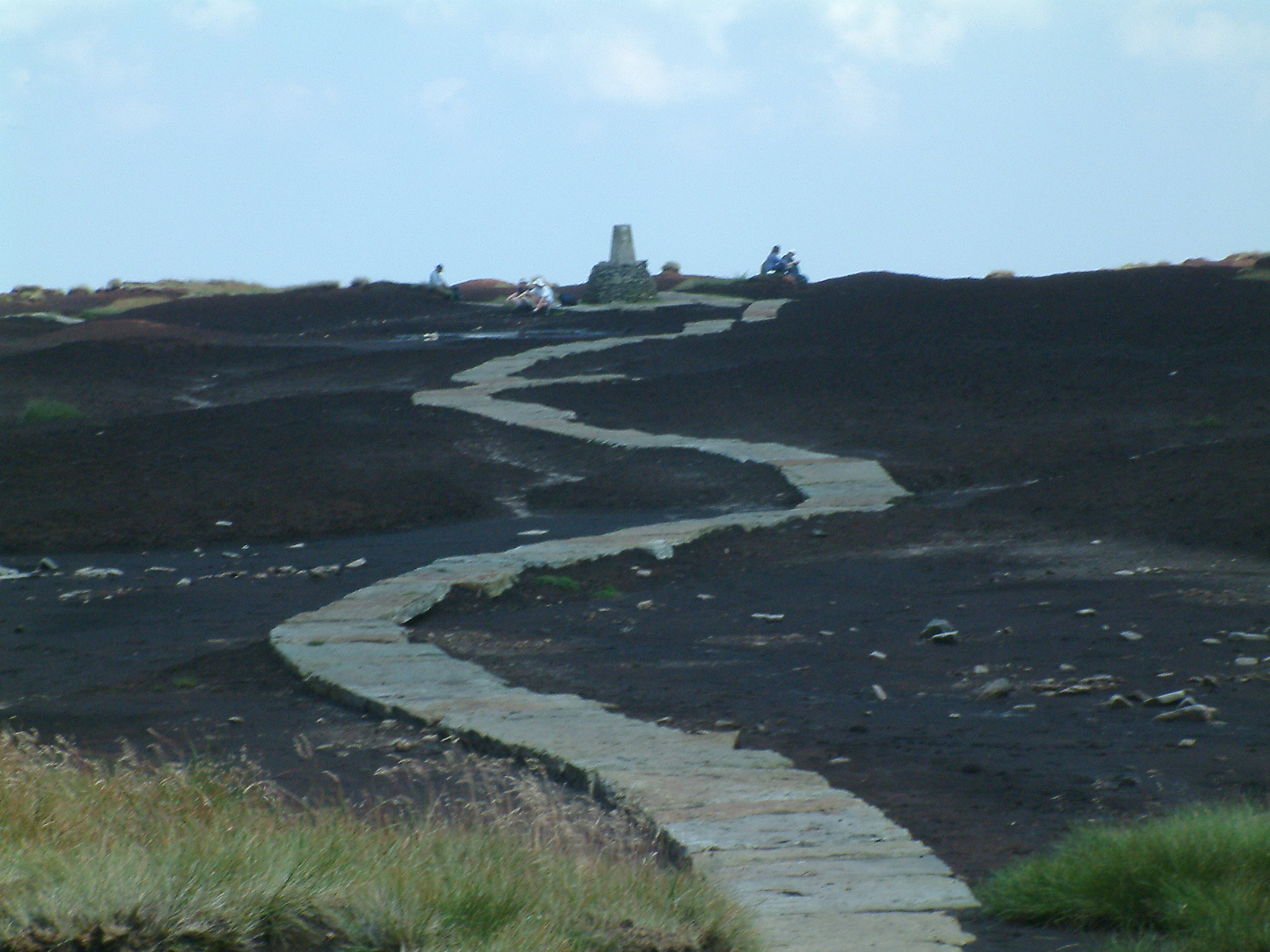 The Pennine Way on the summit of Black Hill (Peak District). The triangulation column and highest point on Black Hill is on a small elevated mound, called Soldiers' Lump. According to Alfred Wainwright's Pennine Way Companion the support timbers for the Ramsden theodolite, used by the Royal Engineers in the original Ordnance Survey, were still to be found here many years later. Photograph by Stephen Dawson 7 August en:2004.